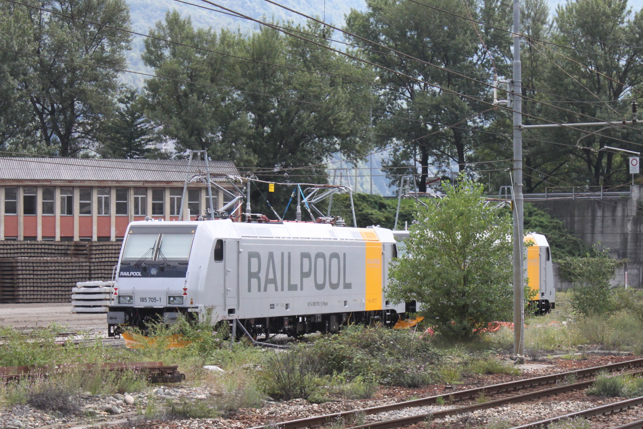 Railpool 185 705-1 (TRAXX locomotive) at Domodossola station (Italy) – after the 2011 Simplon Tunnel fire used here for some months as an unconventional reactive power compensation facility (~power factor correction) for voltage support